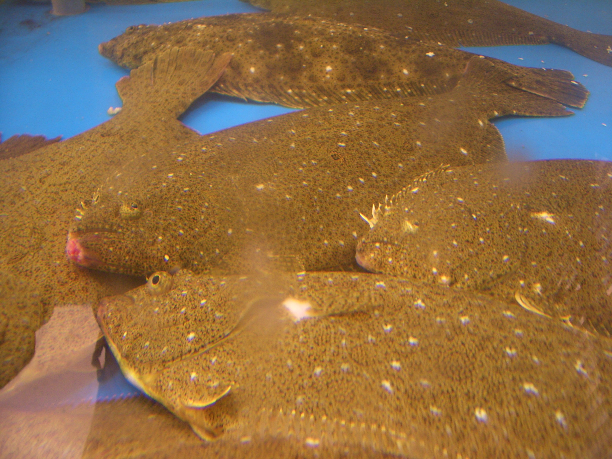 Live Korea Flatfish (Paralichthys olivaceus) sold in a supermarket in Federal Way, Washington